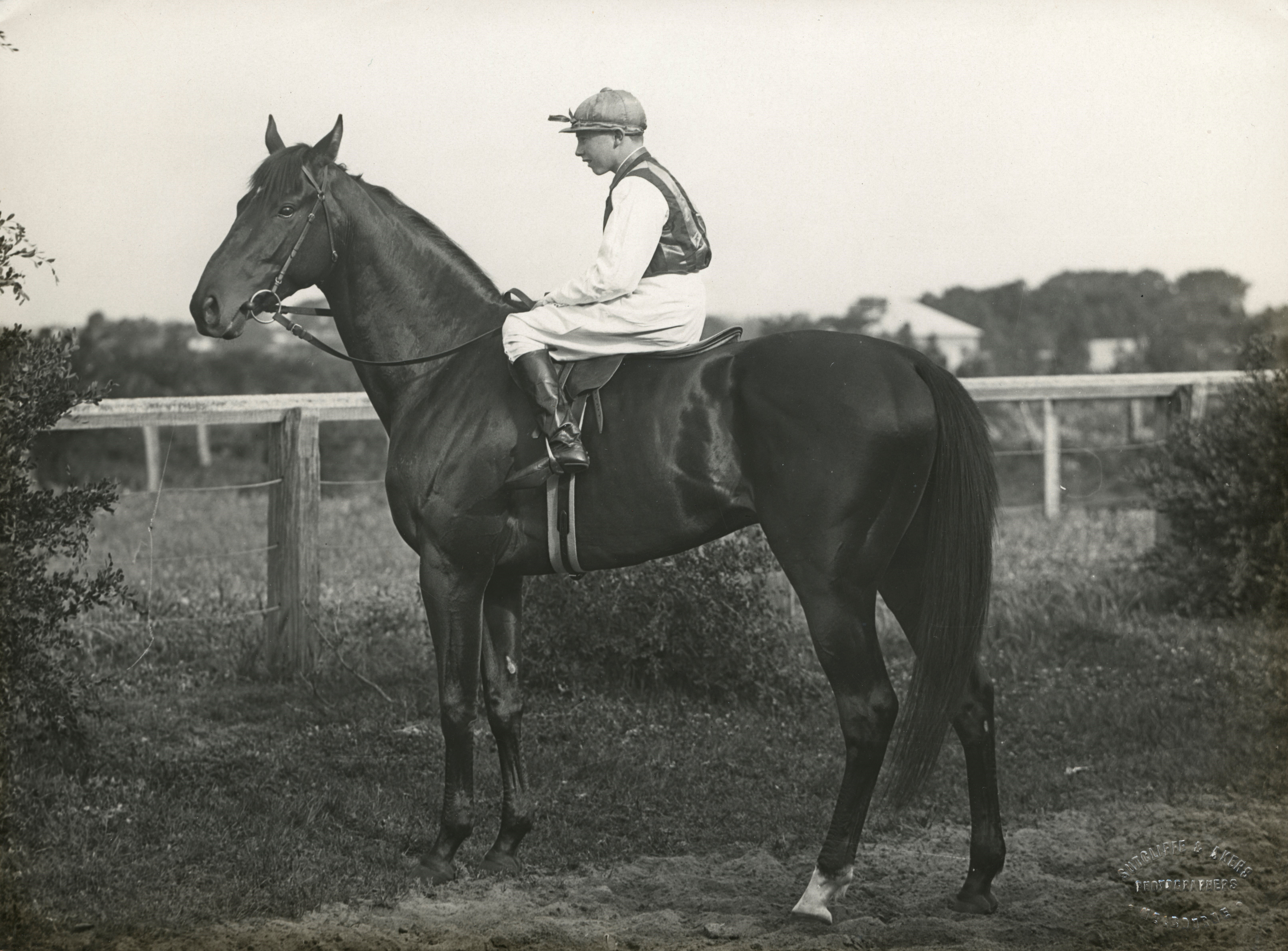 Lavendo 1915 VATC Caulfield Cup scanned from original photo